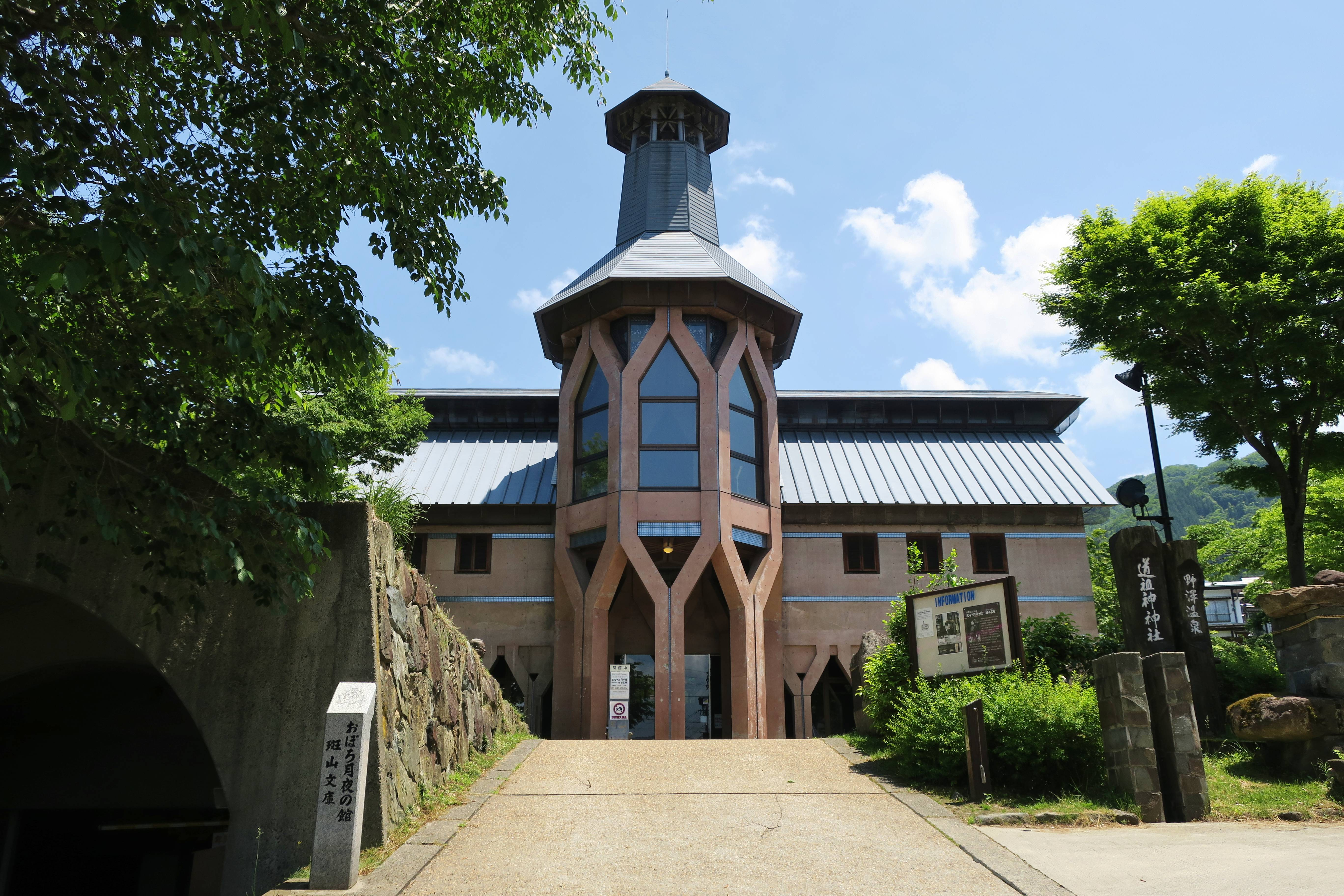 Oborozukiyo no Yakata Hanzan Bunko (Nozawaonsen, Nagano).